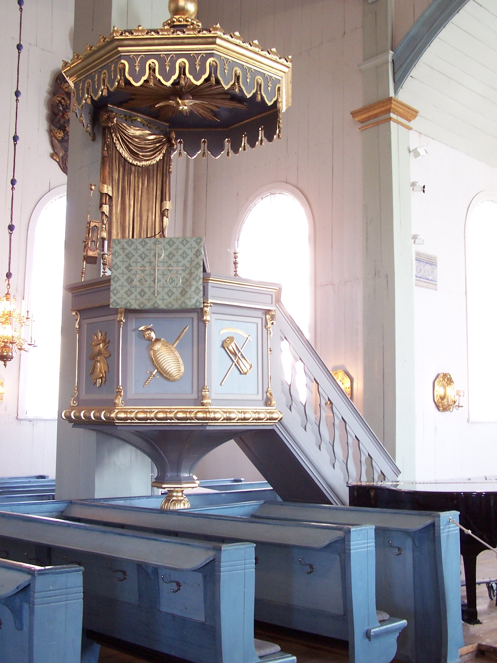 Pulpit in Amiralitetkyrkan, Karlskrona.